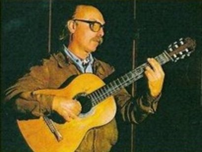 Alberto Merlo. Folk singer (gaucho). Argentina.